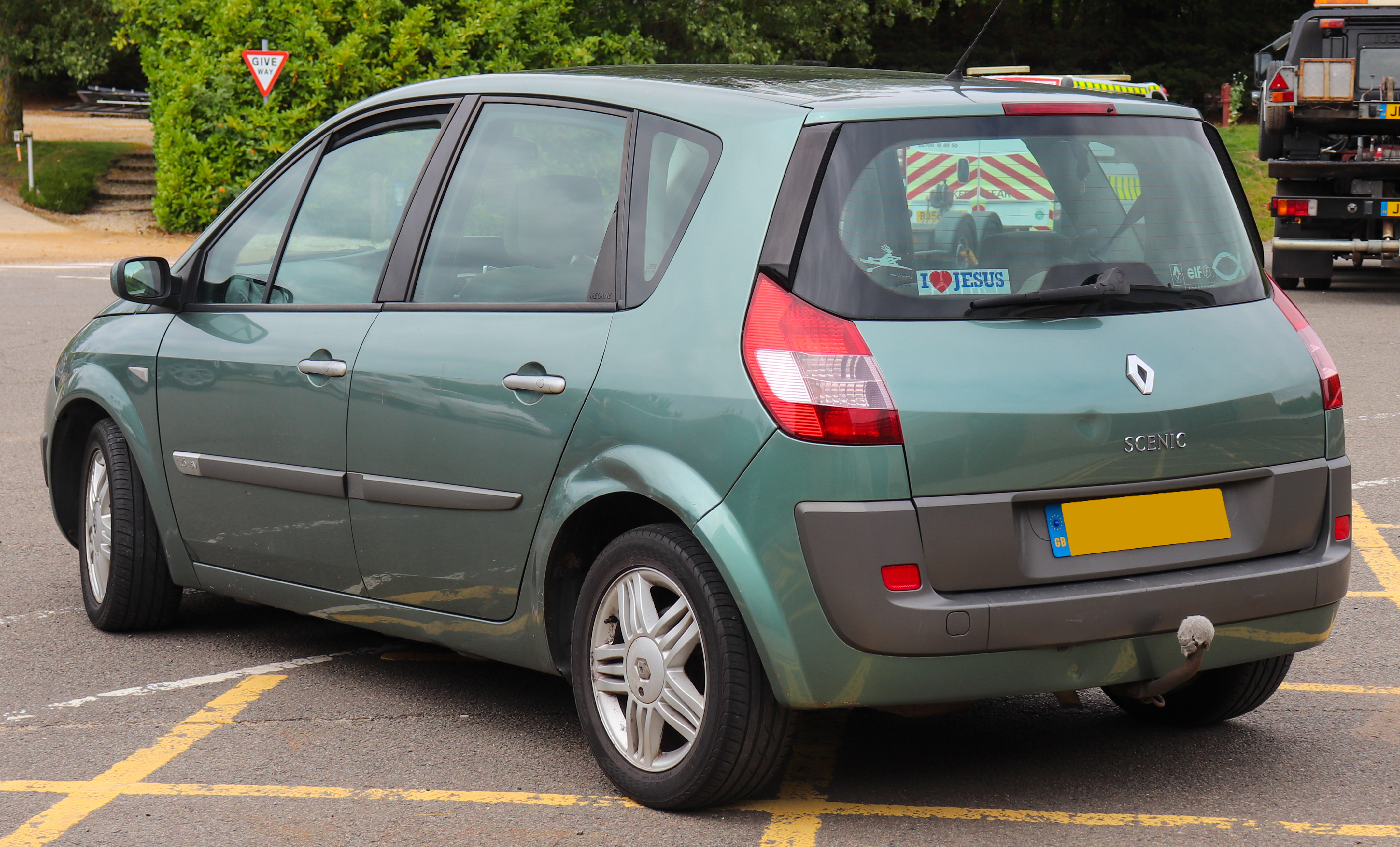 2004 Renault Scenic Privilege 16V Automatic 1.6 Rear Taken at the British Motor Museum, Gaydon